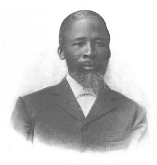 Portrait of A.M.E. Bishop J.M. Dwane - from the book Africa : the problem of the new century : the part the African Methodist Episcopal Church is to have in its solution.